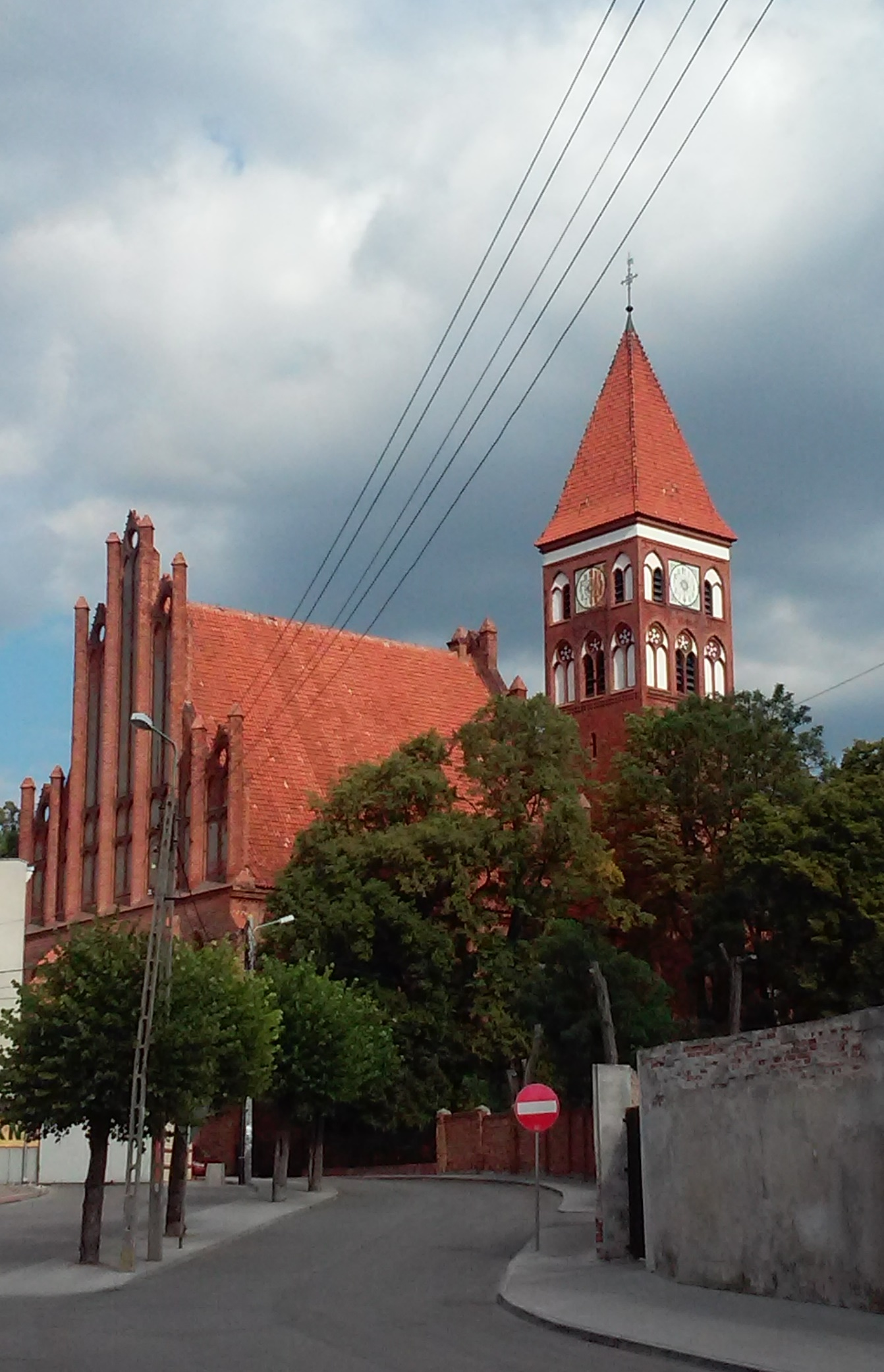 Nowe, Kuyavian-Pomeranian Voivodeship, Poland